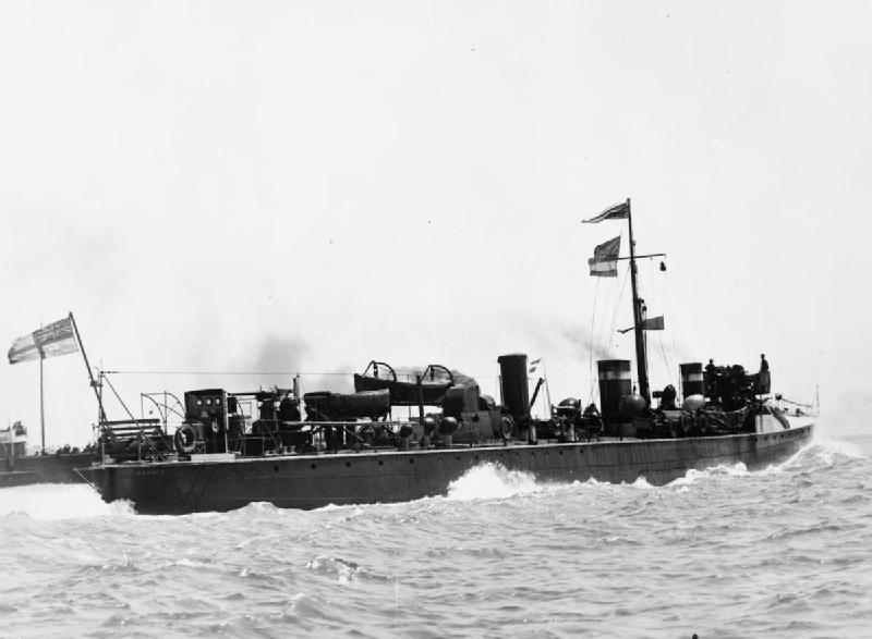 Photograph of British destroyer HMS Dasher.